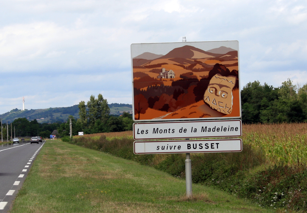 road sign refering to controversial Glozel site without naming it